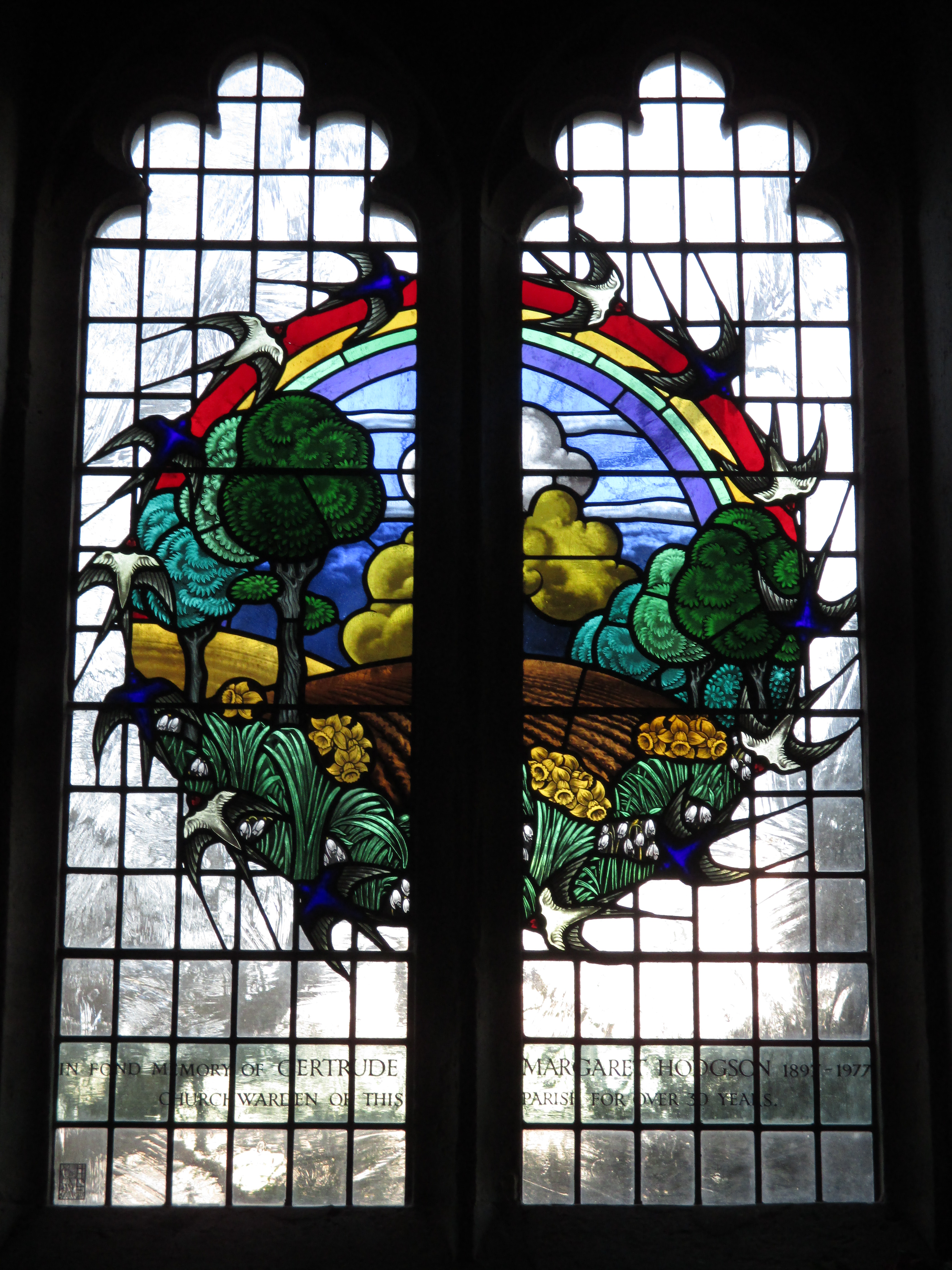 Stained glass window in south wall of St. Mary Magdalene's Church, Bolney, West Sussex, made by the firm of Cox and Barnard in 1982.